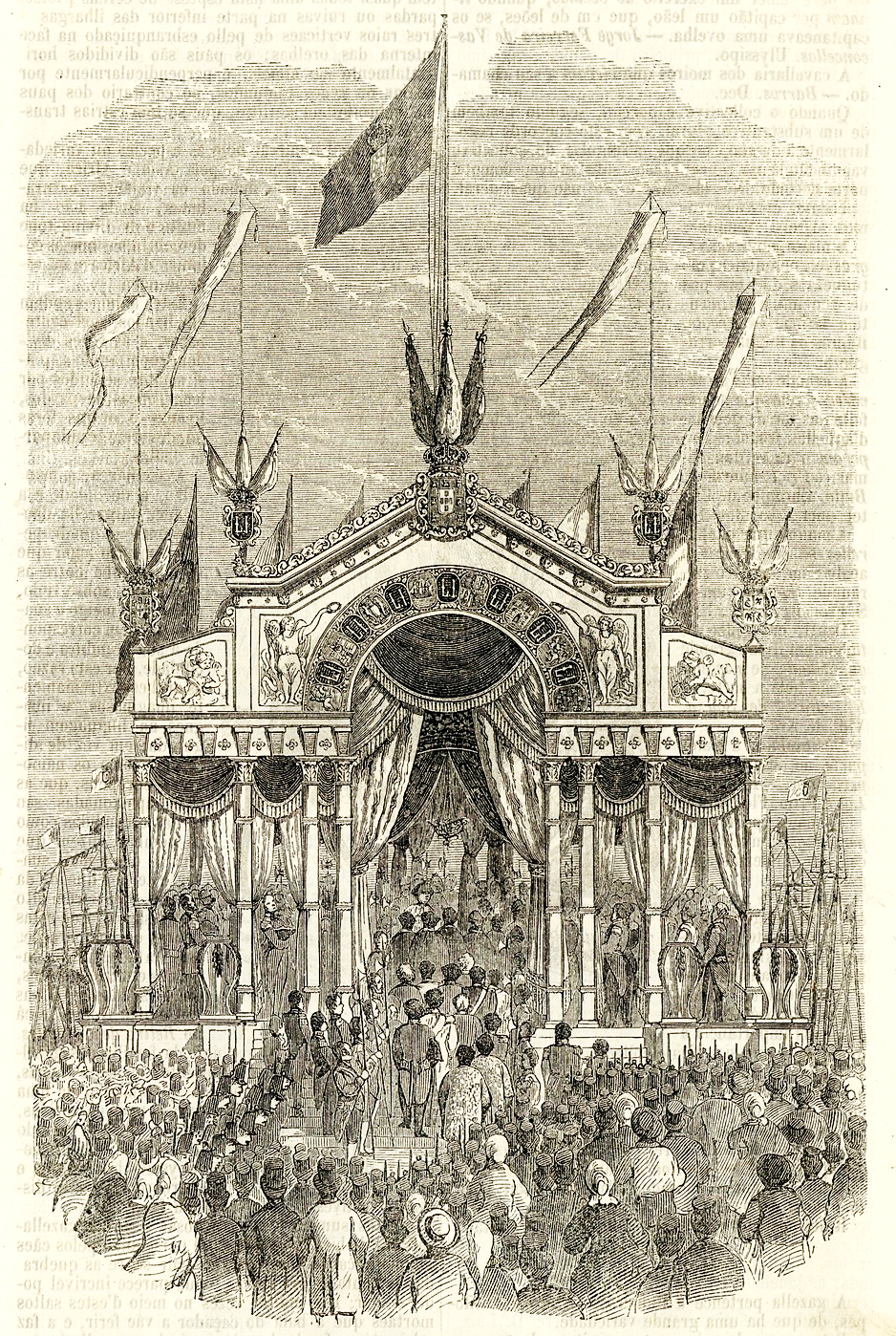 King Luís I of Portugal receives the Keys to the City of Lisbon, following his Acclamation (November 1861).